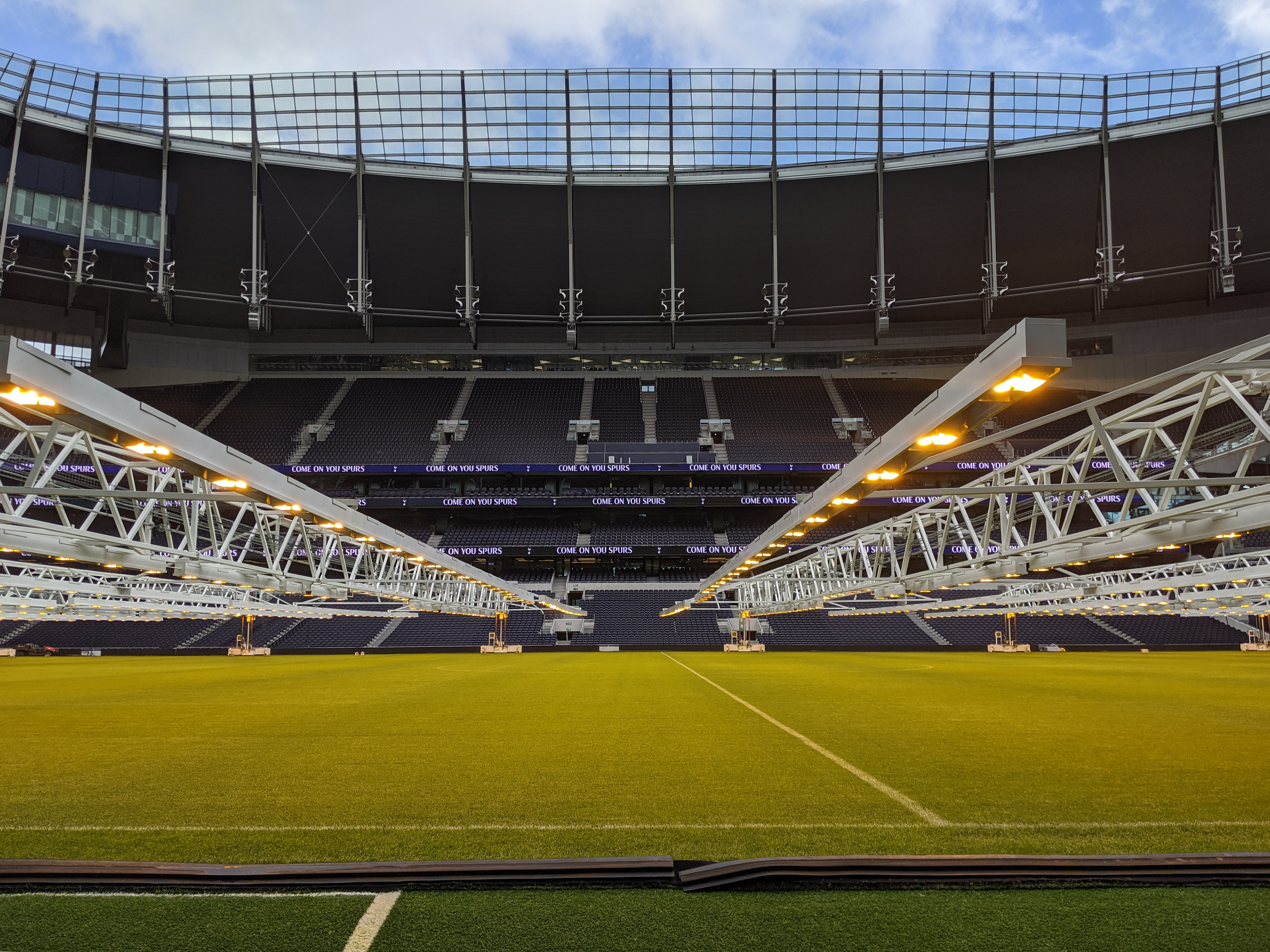 HPS grow lights on trusses over the pitch at Tottenham Hotspur Stadium to encourage growth of grass in shaded area of the stadium